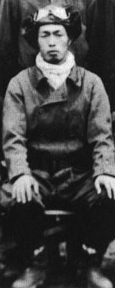 Imperial Japanese Navy pilot and fighter ace Okumura Takeo. During three missions on September 14 1943 he shoot down 10 enemies. He was killed in action in September (21 or 22) 1943. He served on board Ryojo and with Tainan Kokutai and Kokutai 210. His total score was (according to source) 50 or 54 victories.